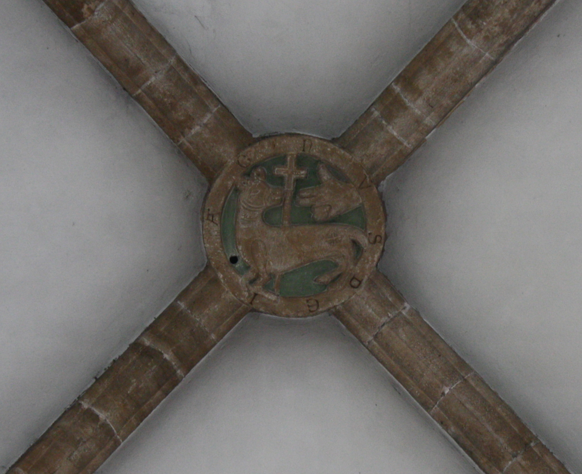 Former Cistercian abbey in Koprzywnica, keystone in crossing